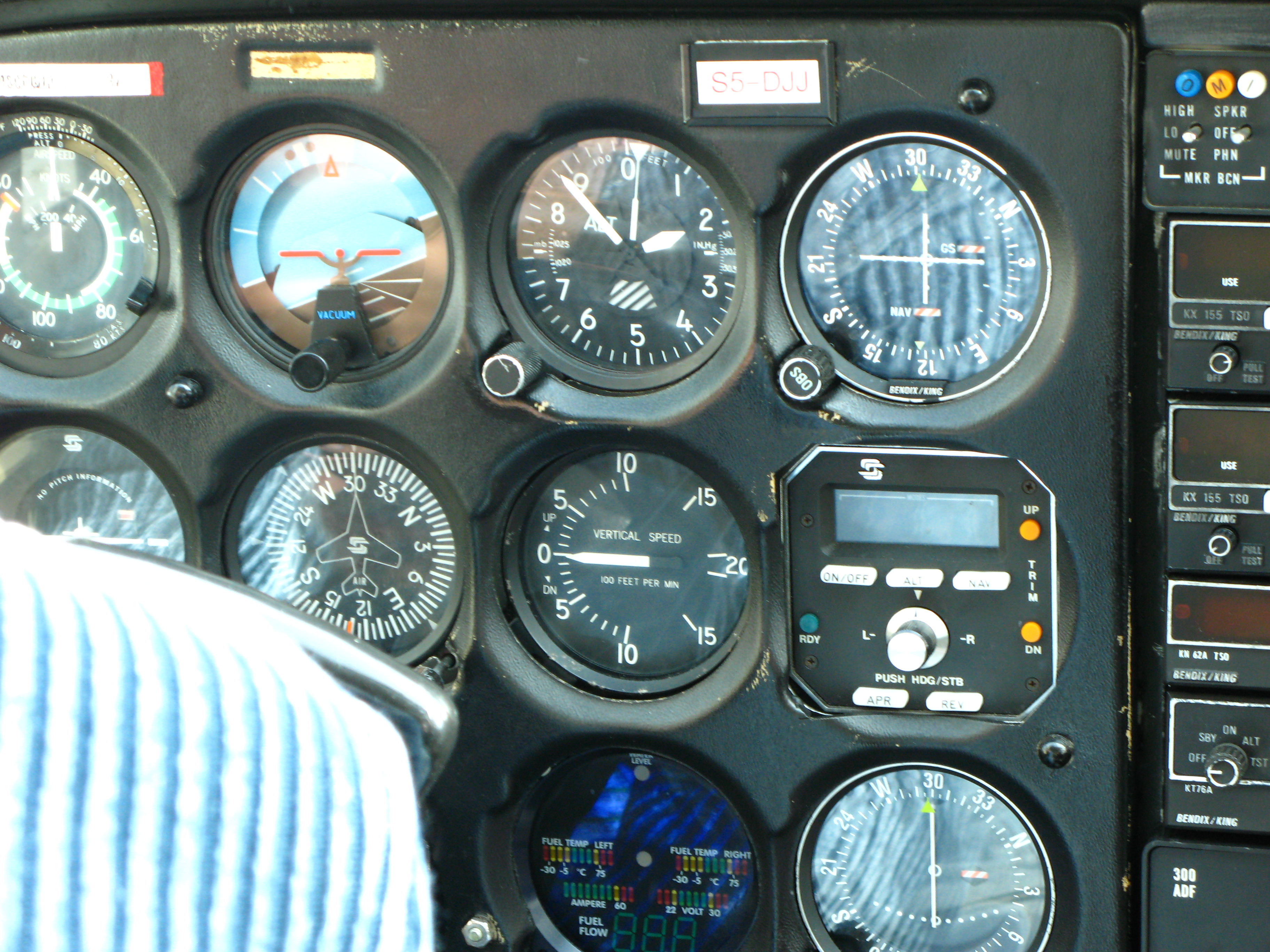 Cockpit of Cessna 172N S5-DJJ